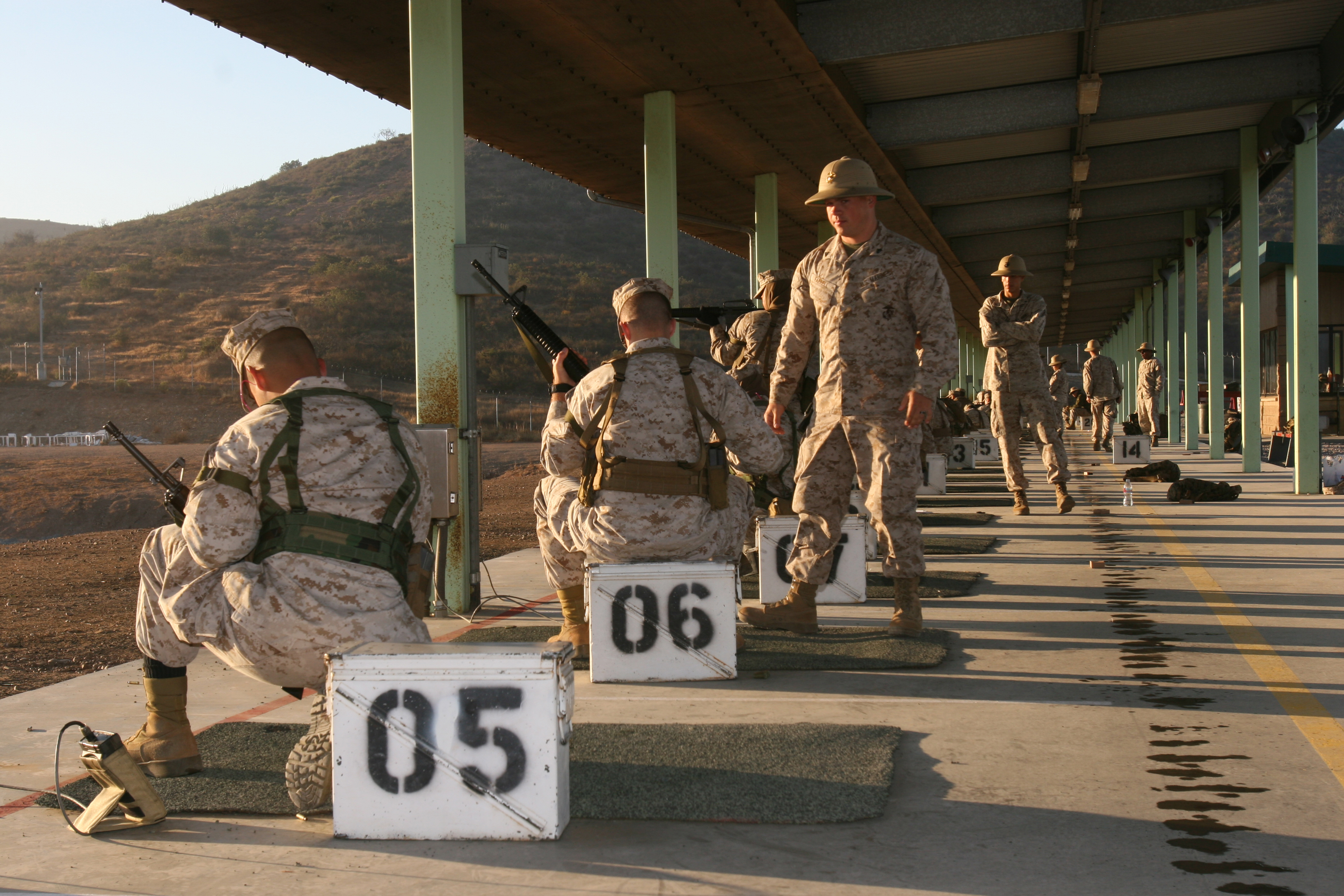 Cpl. Josh Farrell, a combat marksmanship coach with the Carlos Hathcock Range Complex at Marine Corps Air Station Miramar, observes shooters to make sure they are using the fundamentals of combat marksmanship and following the proper safety procedures at the range, October 21. Marine coaches help Marines qualify with both the M-16-A2 rifle and M-9 pistol. (U.S. Marine Corps photo by Lance Cpl. Christopher O'Quin) (Released)